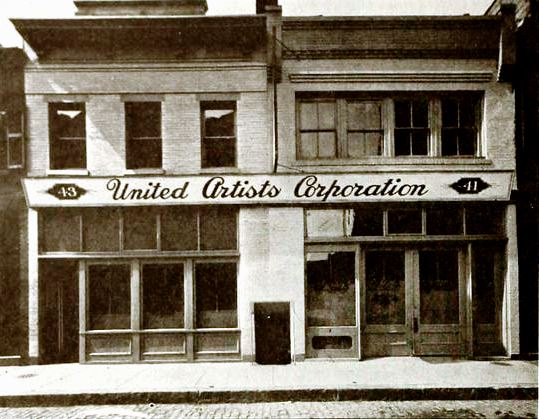 Newly opened offices of United Artists on Winchester Street in Boston. On page 1846 of the August 30, 1919 Motion Picture News.